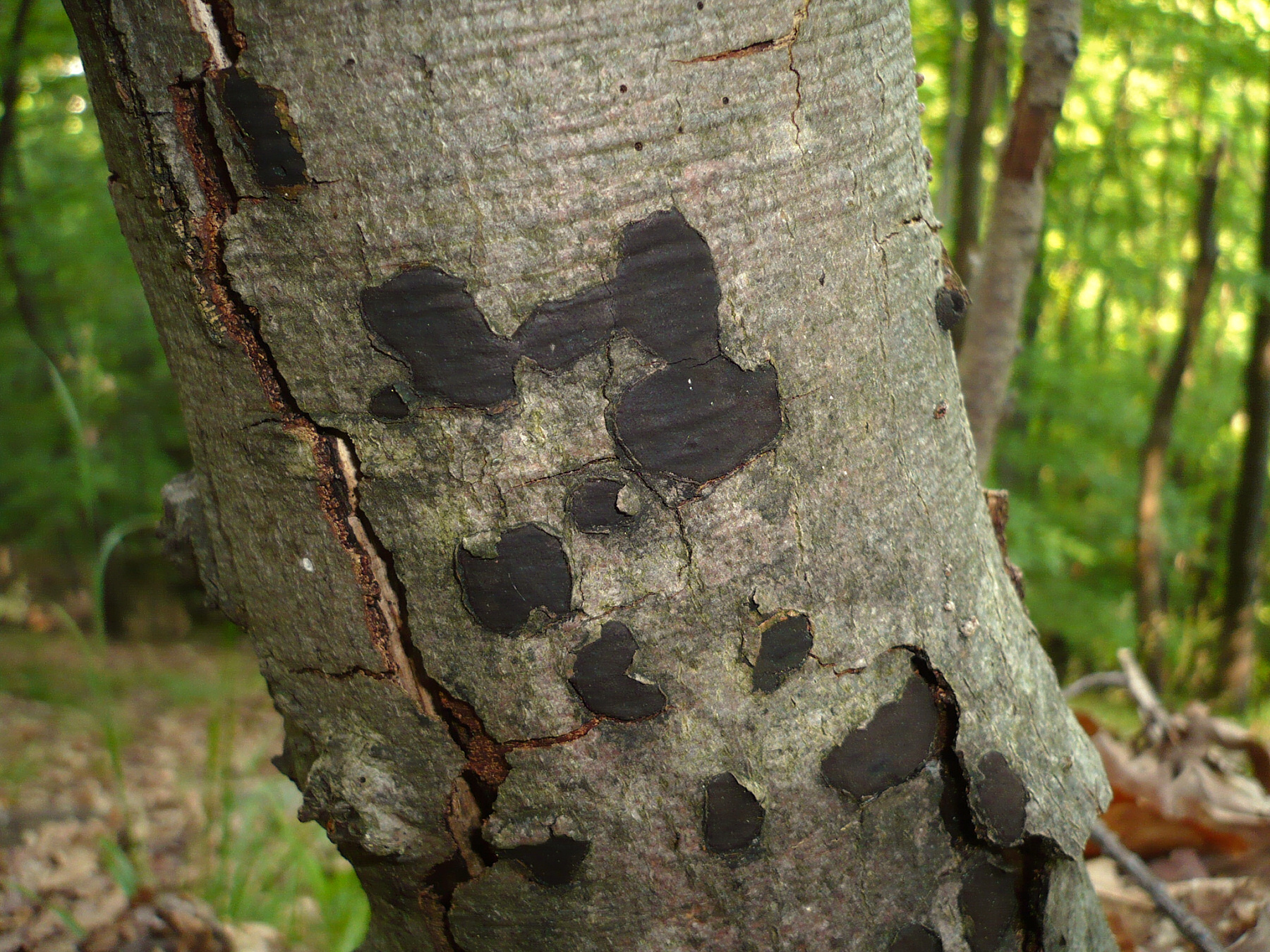 The fungal tree pathogen Biscogniauxia nummularia (Bulliard:Fries) Pouzar. Photographed in Wulkalände nahe Burg Forchtenstein, Forchtenstein, Bezirk Mattersburg, Burgenland, Austria.